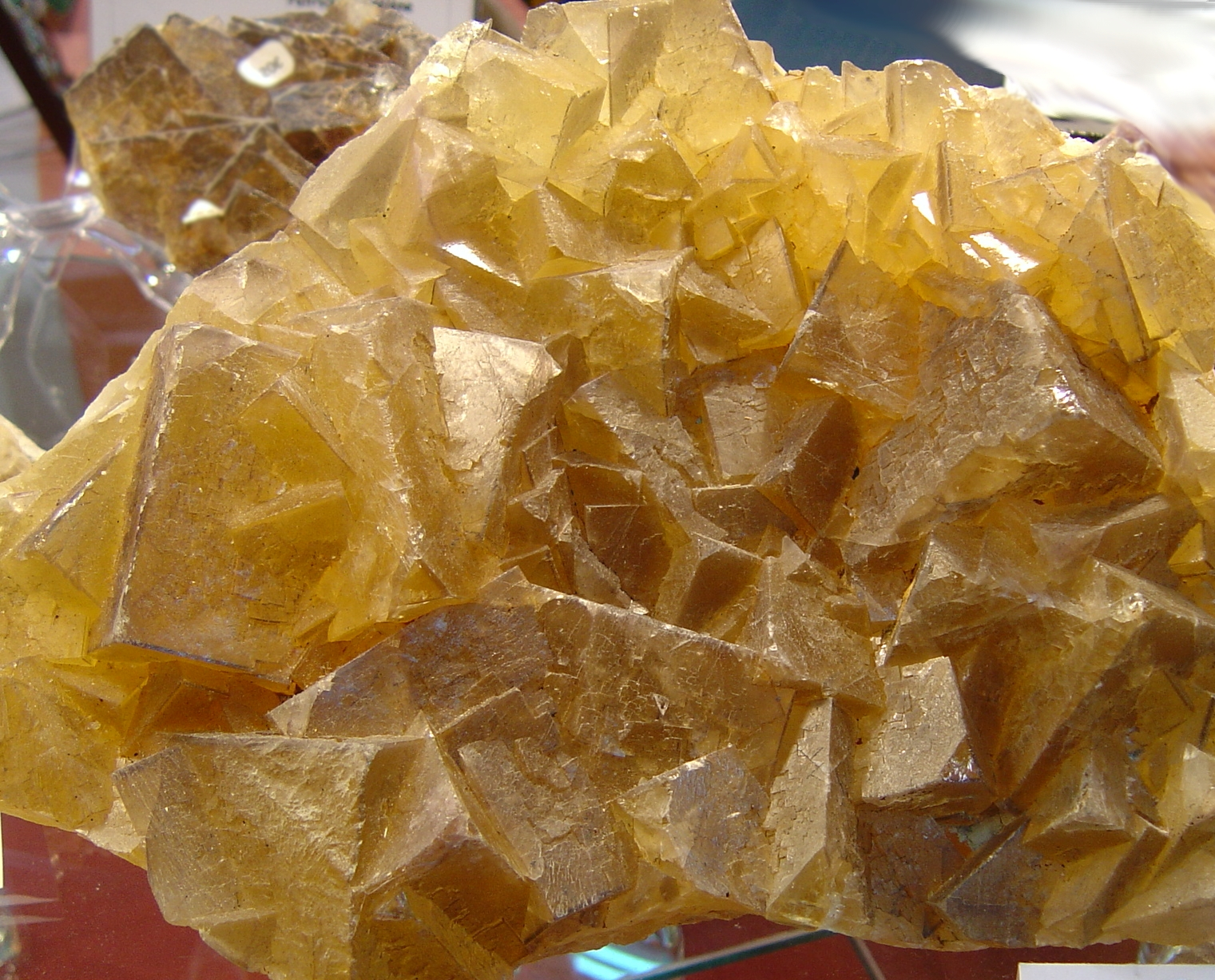 fluorite I took this photo in october 2005